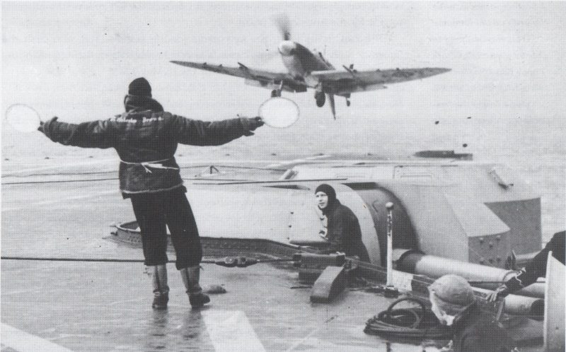 Supermaring Seafire landing on HMS Indomitable, being guided in by a "batsman". In lower right is twin QF 4.5-inch anti-aircraft gun mounting.